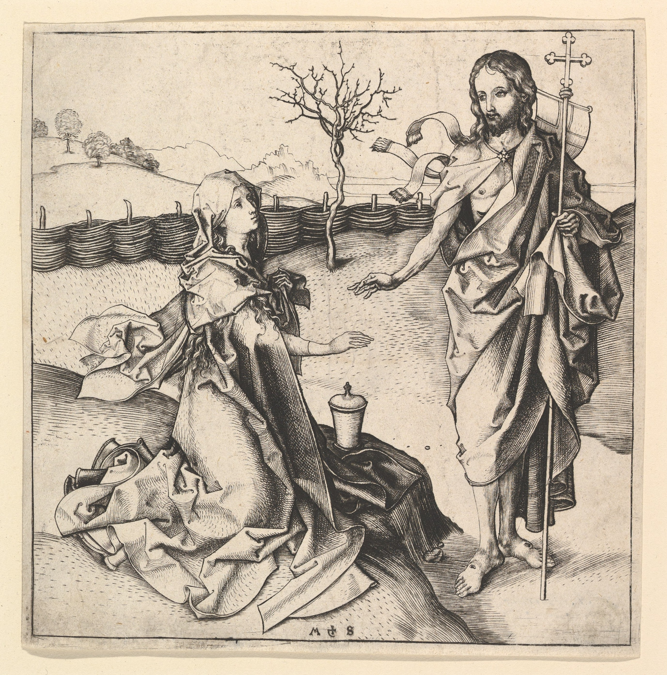 Print; Prints